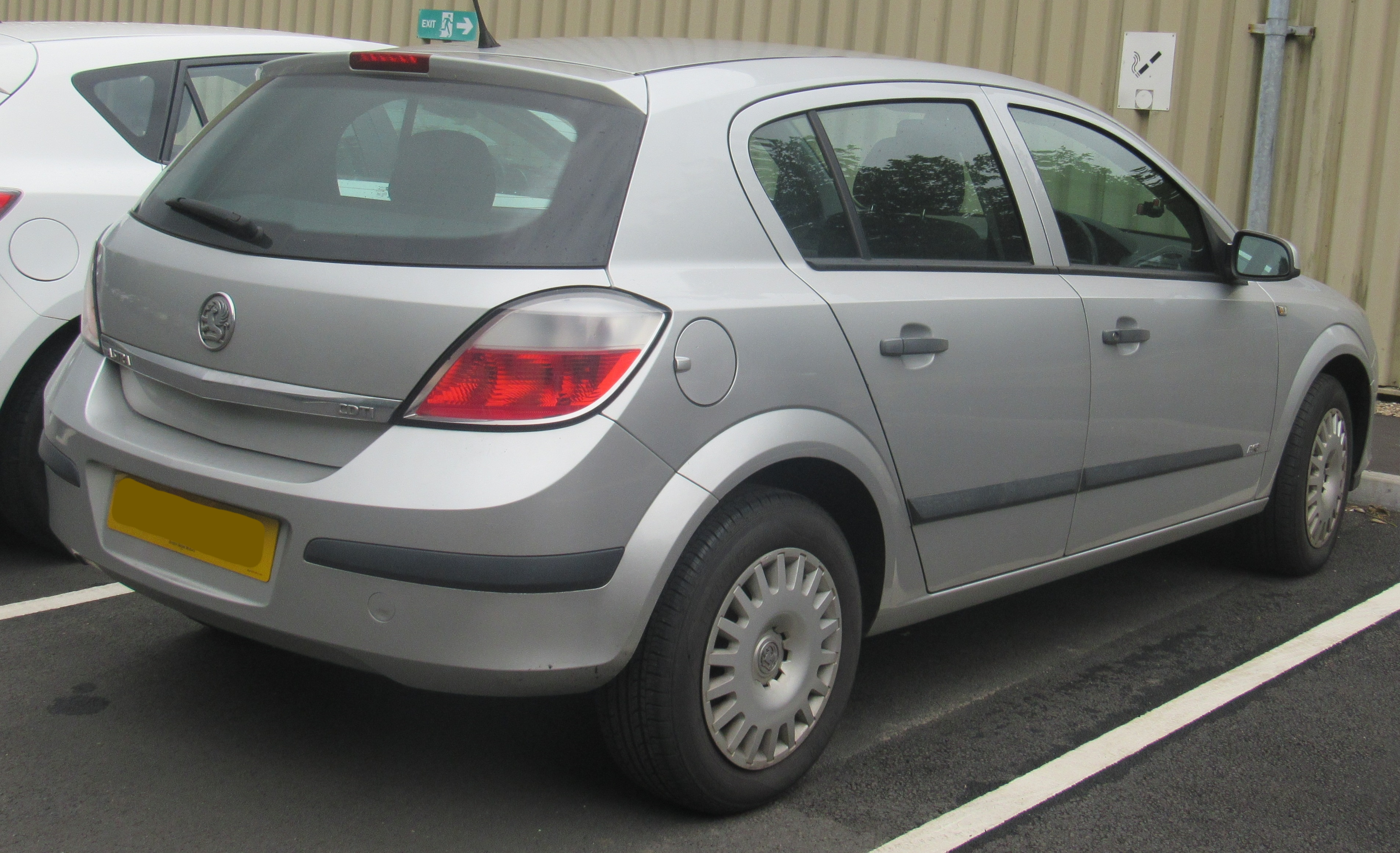 2006 Vauxhall Astra Life CDTi 90 1.2 Rear Taken in Leamington Spa